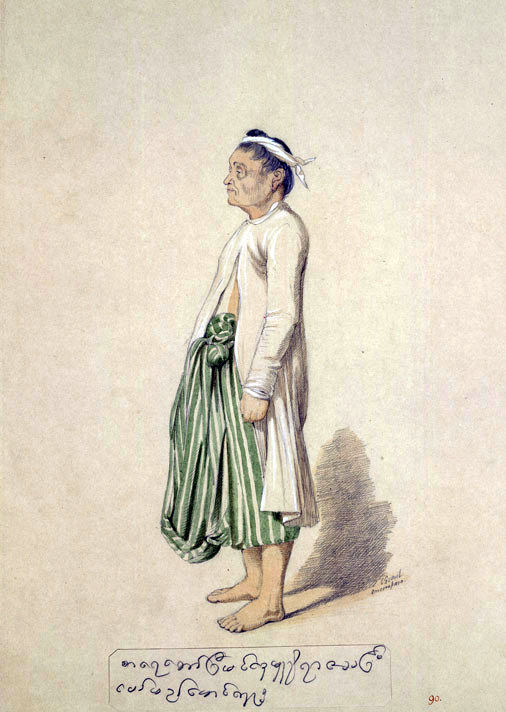 Watercolour with pen and ink of a portrait of the Tsare-Dau-Gee (စာရေးတော်ကြီး , Sayeidawgyi) or Royal Scribe at Amarapura. This most amusingly imperturbable old official was invested with charge of the British Residency as a sort of Major Domo; an office he contrived to fill with that amount of success which won for him the very highest need of - self satisfaction.